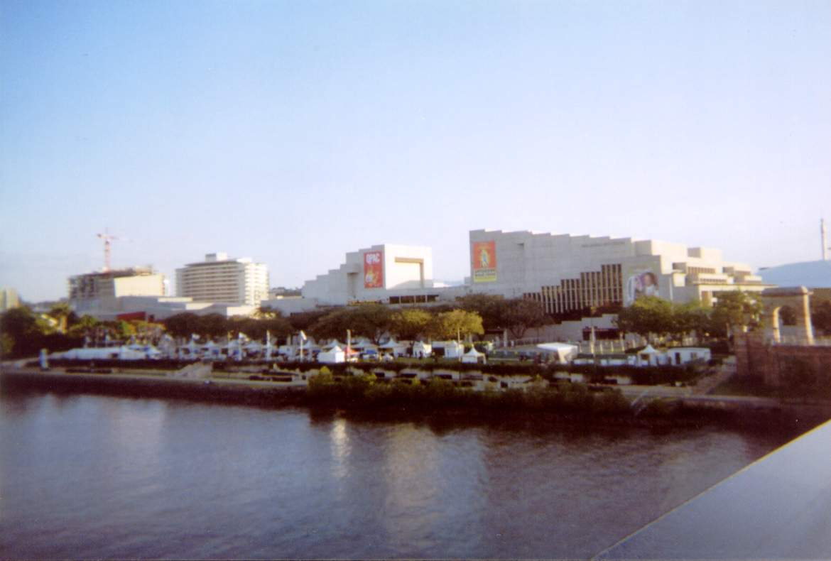 Queensland Performing Arts Centre - view from Victoria Bridge South Bank, Brisbane, Queensland, Australia ( this photograph was taken by Figaro ) This photo is a better quality photo of the Queensland Performing Arts Centre than the previous photo was, and has been uploaded to replace the previous photo.